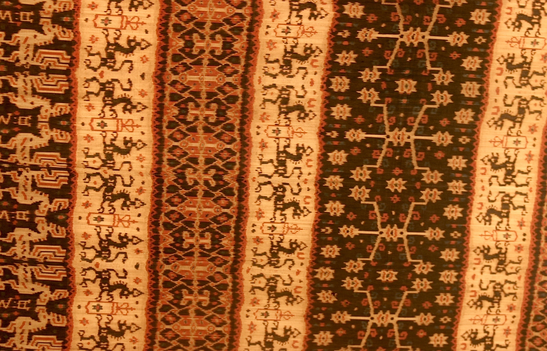 Man’s Shoulder Cloth (Hinggi), early 20th century; cotton; warp ikat; Indonesia, East Sumba, Kingdom of Kapunduk